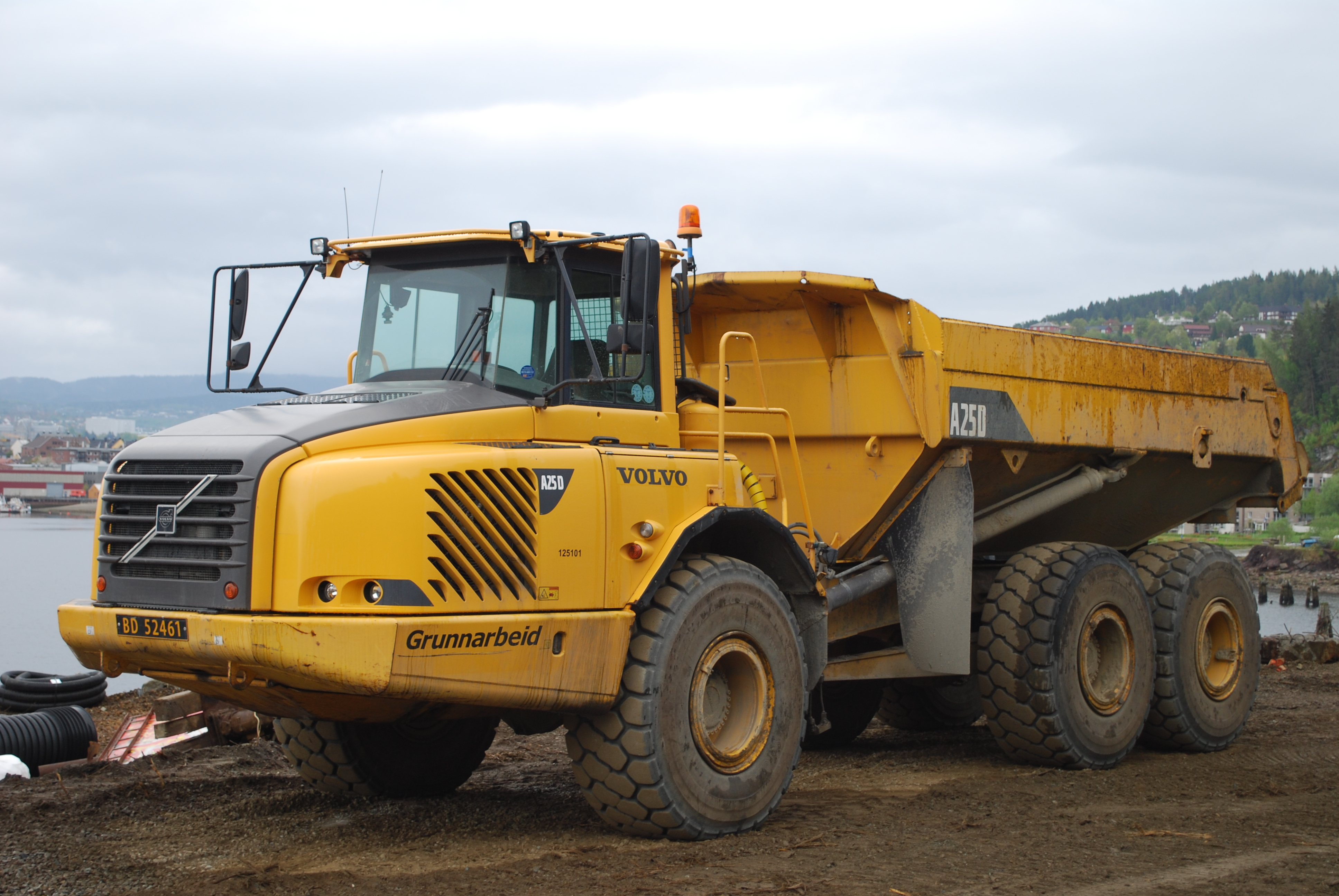 Volvo A25D dump truck in Trondheim, Norway.